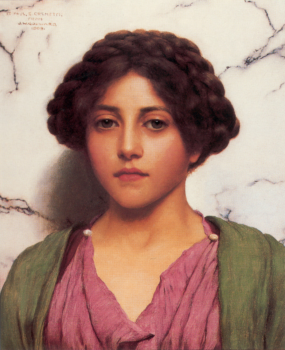 A Classical Beauty